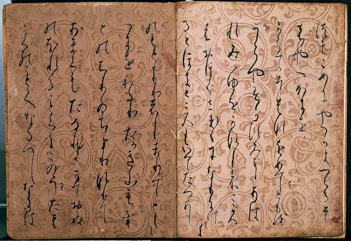 Collected Japanese Poems of Ancient and Modern Times (古今和歌集, Kokin Wakashū), Gen'ei edition